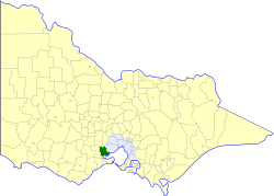 Location of the former Shire of Corio within Victoria.